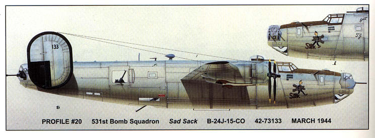 B-24 with "Sad Sack" nose art